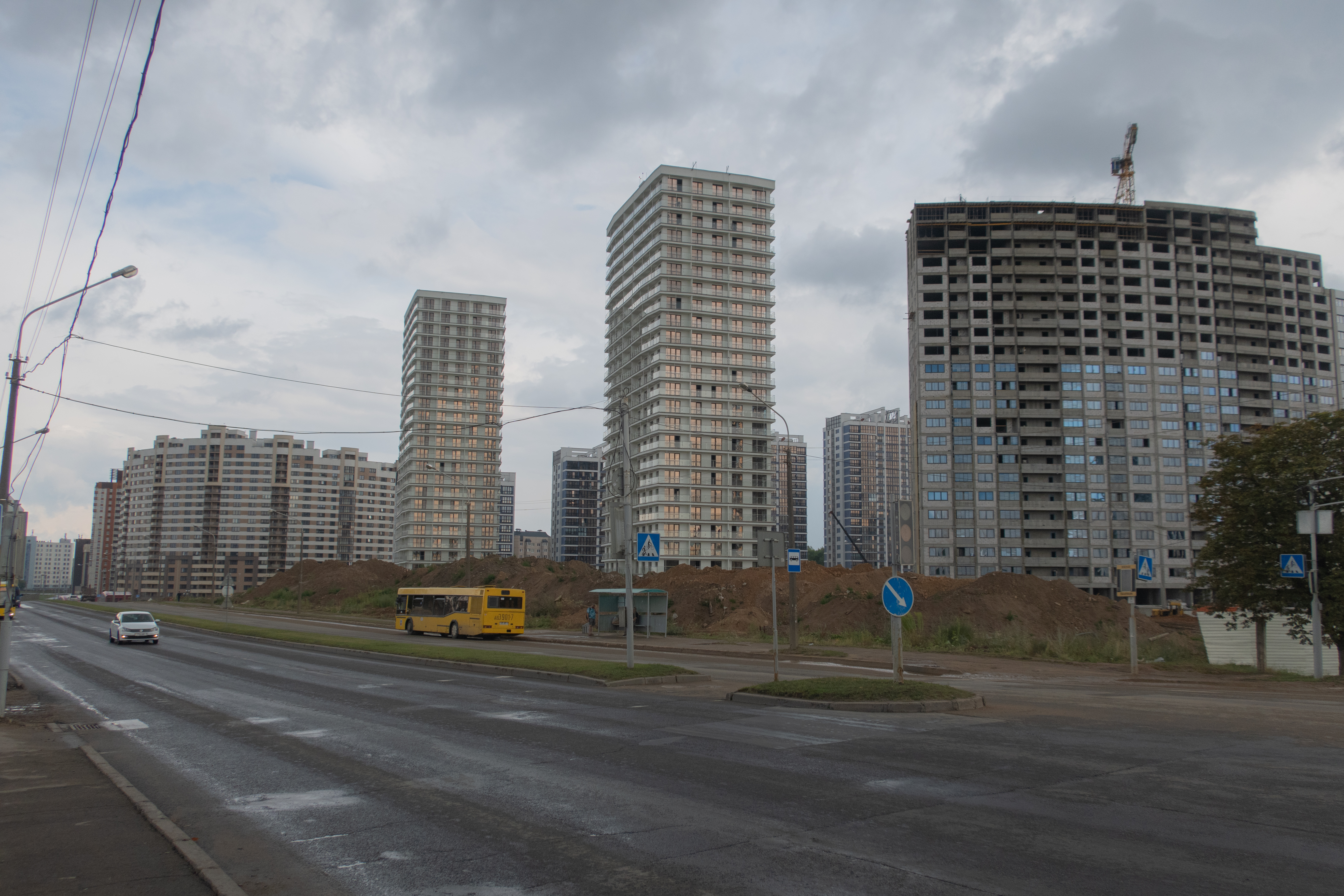 Aeradromnaja street (Minsk, Belarus)